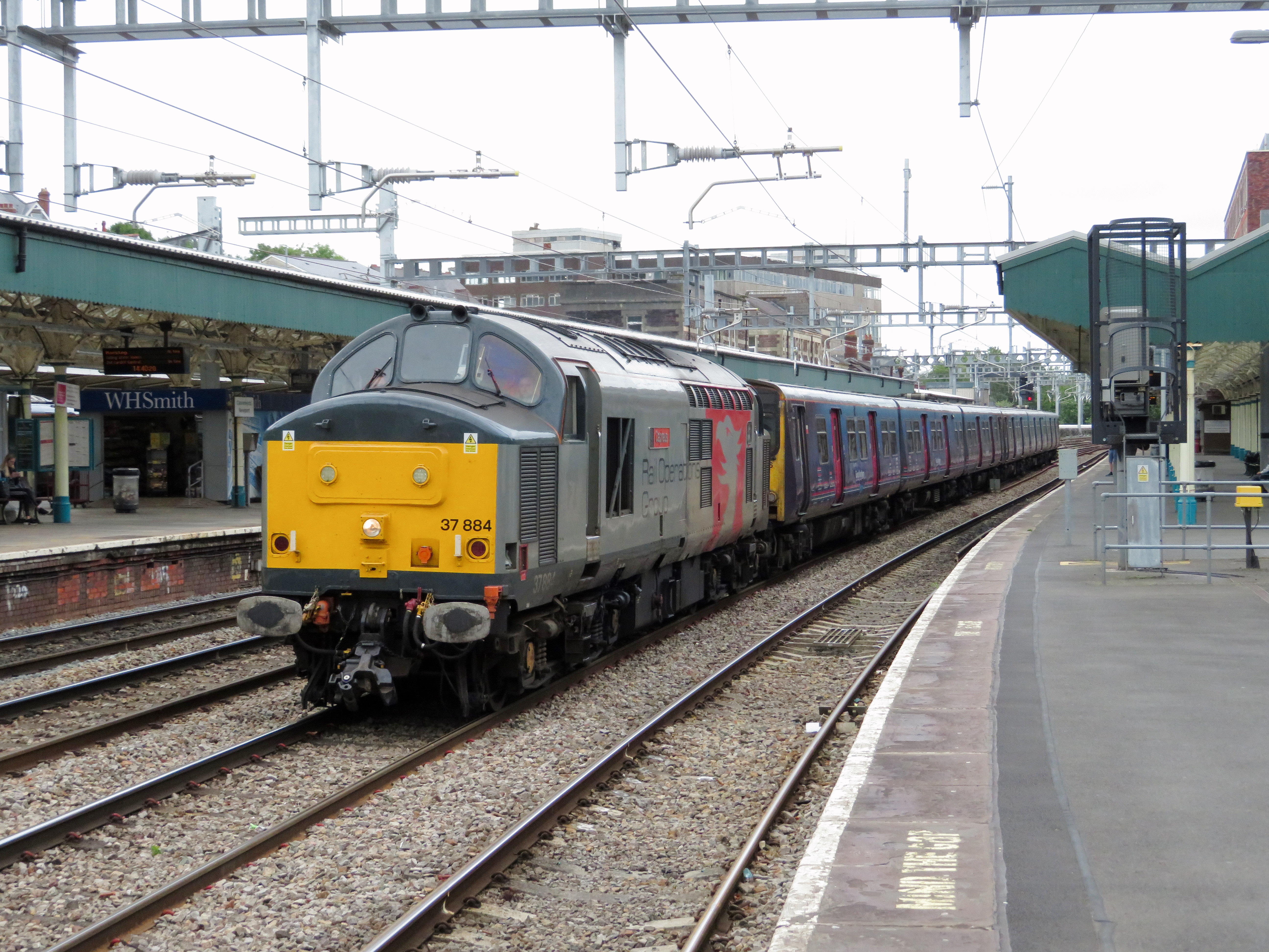 On the final journey. Class 37 locomotive No. 37884 hauls two withdrawn Great Northern class 313 units - Nos. 313056 and 313024 - through Newport station on their final journey: Ilford to Sims Metals, at Newport Docks, for scrapping.